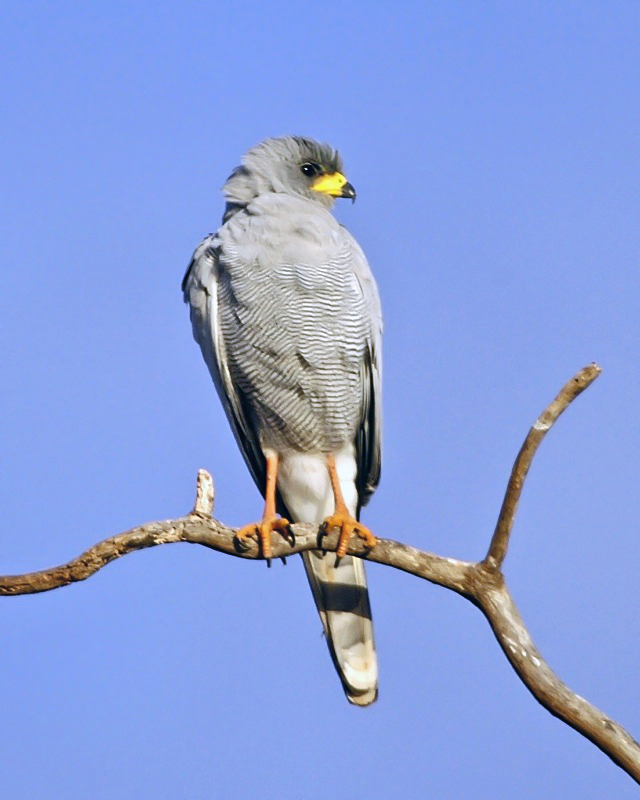 Eastern Chanting-Goshawk Melierax poliopterus Tsavo East, Kenya August 25, 2008 ID features : yellow cere, long orange-red legs, white rump 690V9982